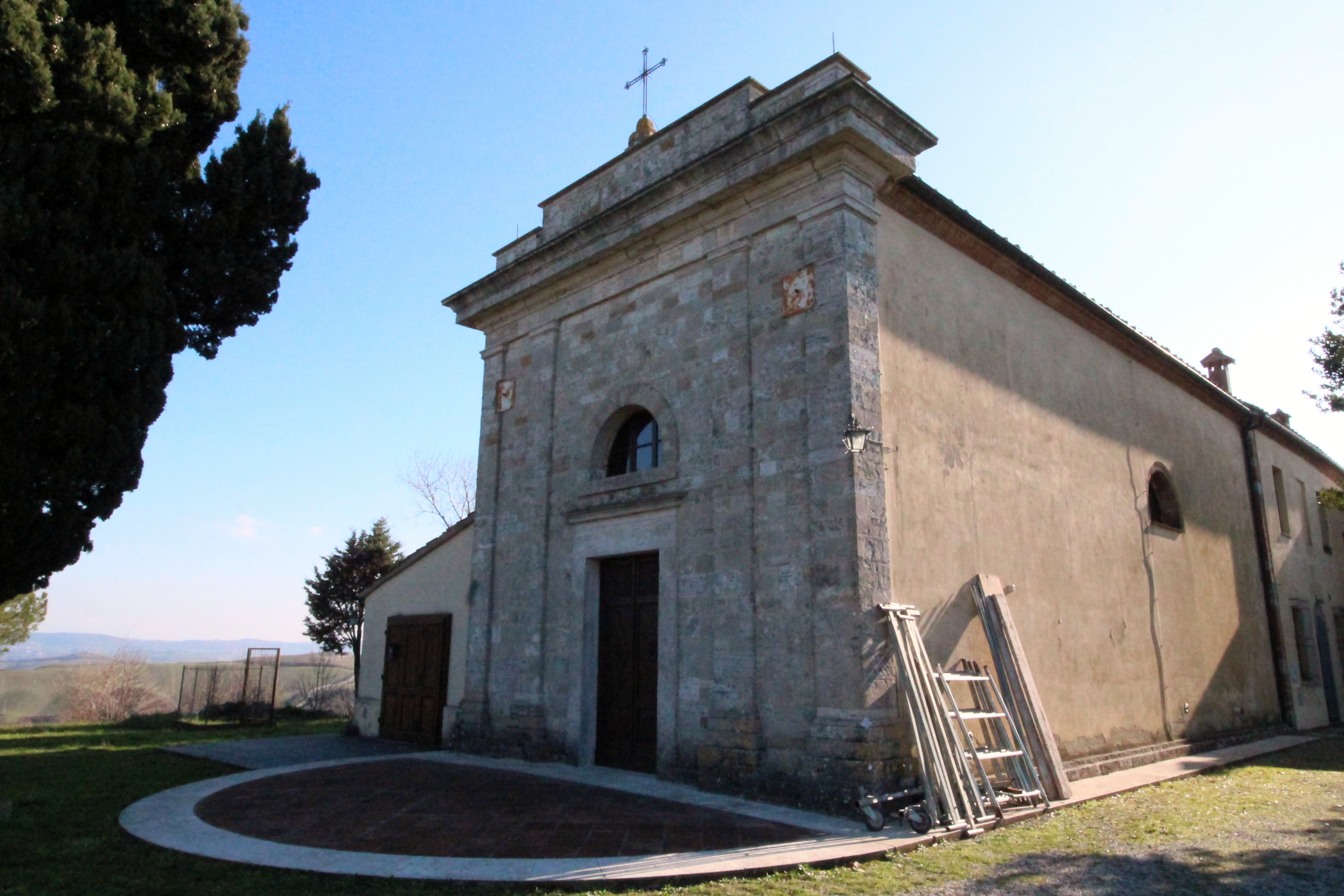 Church San Florenzo a Vescona, Vescona, village of Asciano, Province of Siena, Tuscany, Italy